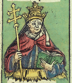 Wood cut from the Nuremberg Chronicle (Latin copy in Sao Paulo)